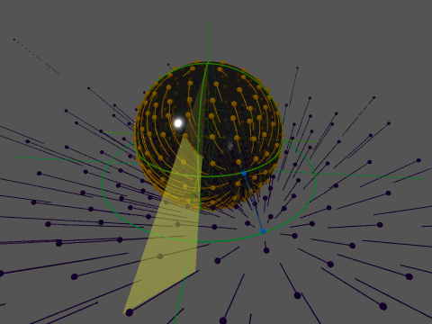 Mobius transformation, showing stereographic projection between plane and sphere. Generated with POVRAY. Povray file created with a java program. Donated to the Public Domain.